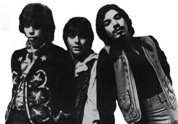 Trade ad for The Soul Survivors's single "Mama Soul".To better adapt it to his respective Wikipedia article, the ad was cropped and cleaned in a graphics editing program. The original can be viewed at the source below.